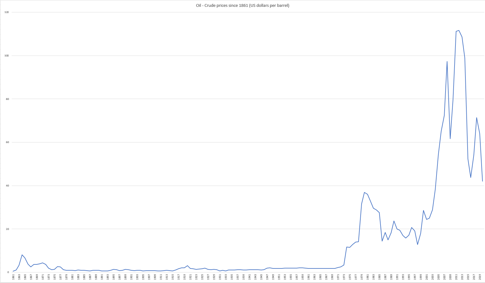 Graph price of oil 1861 to 2020 WID data. This graph was created in Excel based on data from Our World of Data accessed on March 6, 2020. The entry for 2019 is from the US Energy Information Administration (EIA) and the entry for 2020 is the spot price on March 6, 2020 published in Business Insider.